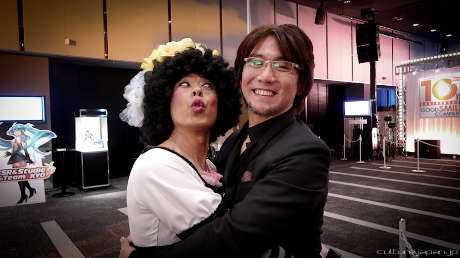 Takanori Aki, Chief Executive Officer of the Good Smile Company, Inc., and Joy Max, Employee of the Nitroplus Co., Ltd., attended a event of the Good Smile Company 10th Anniversary at the Bellesalle Akihabara in Chiyoda Ward, Tōkyō Metropolis on May 2, 2011.